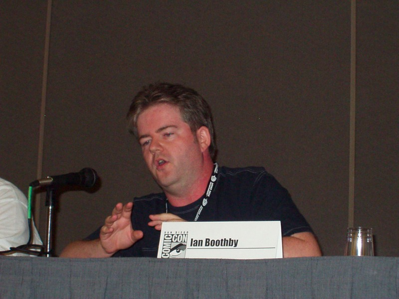 Ian Boothby at Comic Con 2004